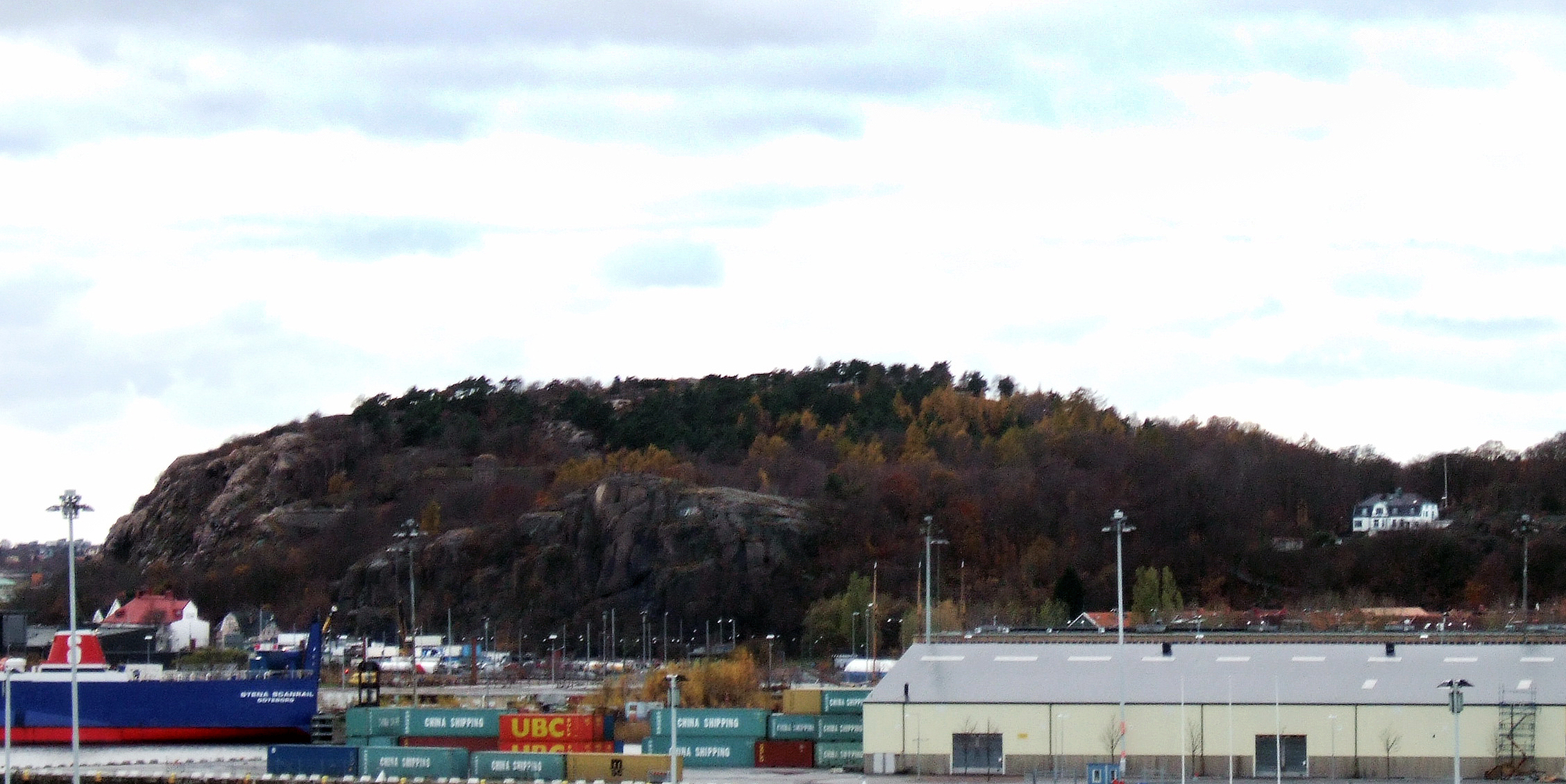 Ramberget (i.e. "The Raven Mountain"), Hisingen, Gothenburg, Västra Götaland County, Sweden.